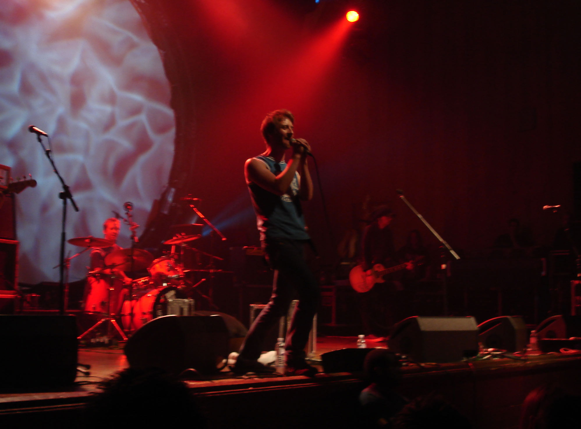 Image of Chesney Hawkes in concert at the University of Exeter Summer Ball, June 2008